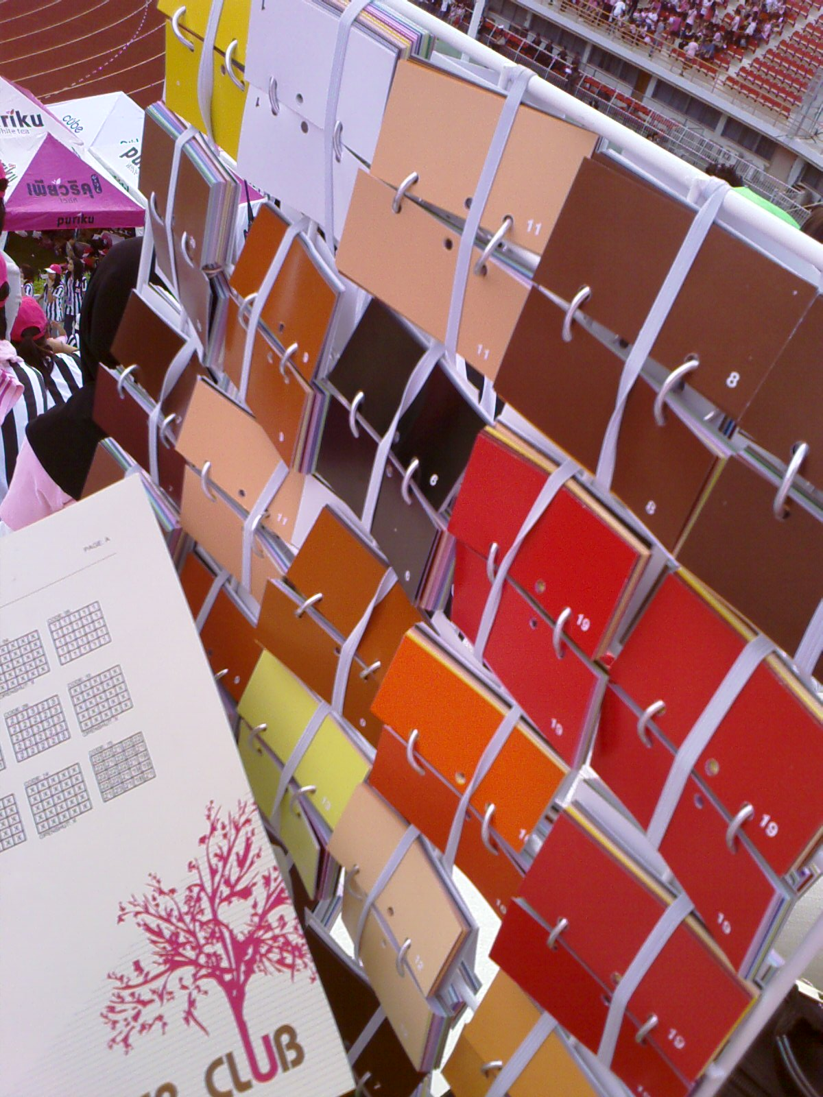 Coloured card booklets on a card stunt "plate", from the 66th Chula–Thammasat Traditional Football Match. The performers arrange the cards according to predesigned patterns in order to achieve a detailed combined image. This particular set of plates uses a 25:1 "pixel" per person scale, which, with a performing audience seated in rows of 90 by 23, displays a final image resolution of 2,250*575.